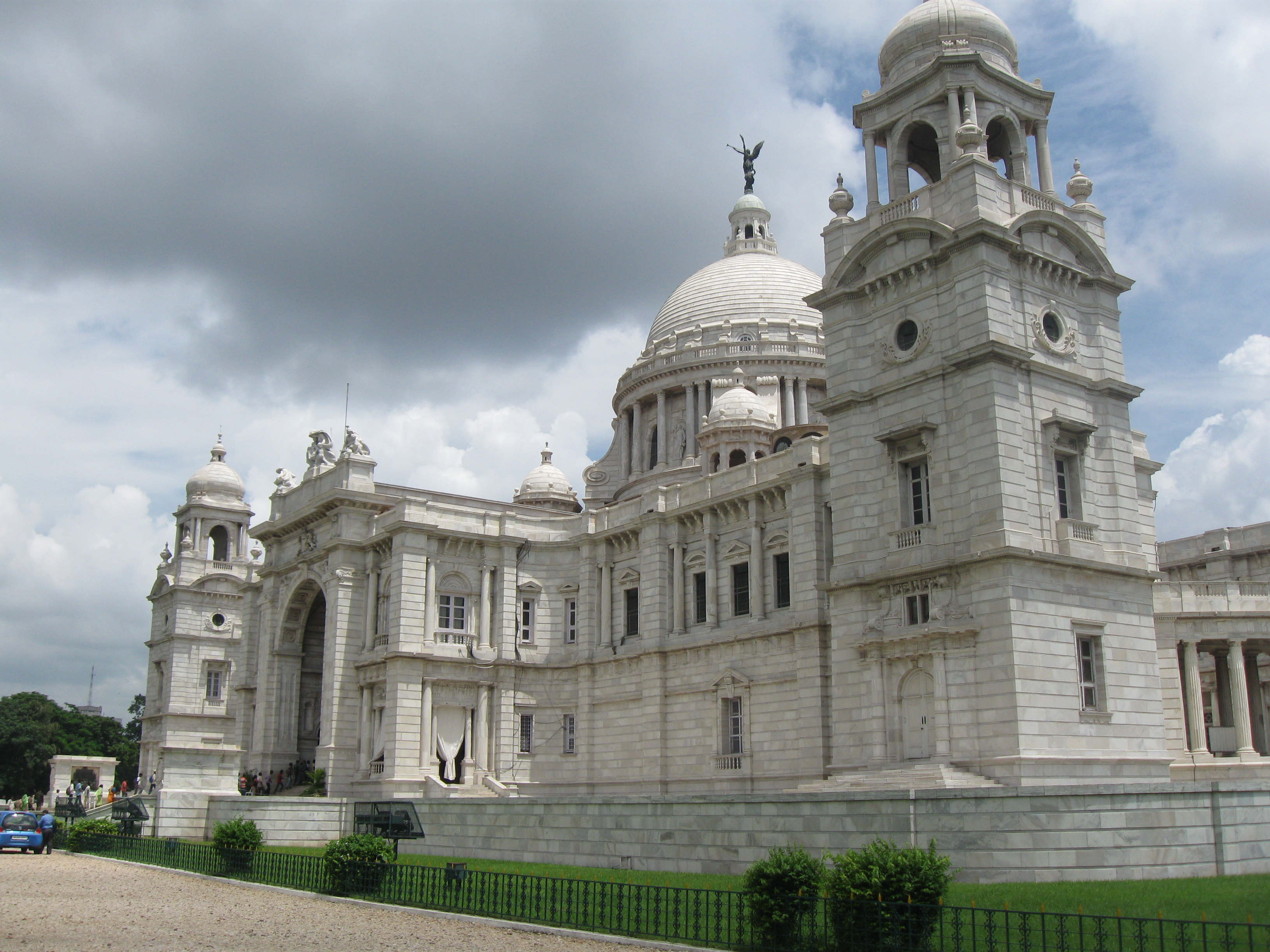 Victoria Memorial Hall, a memorial building dedicated to Victoria, Queen of the United Kingdom, located in Kolkata, India